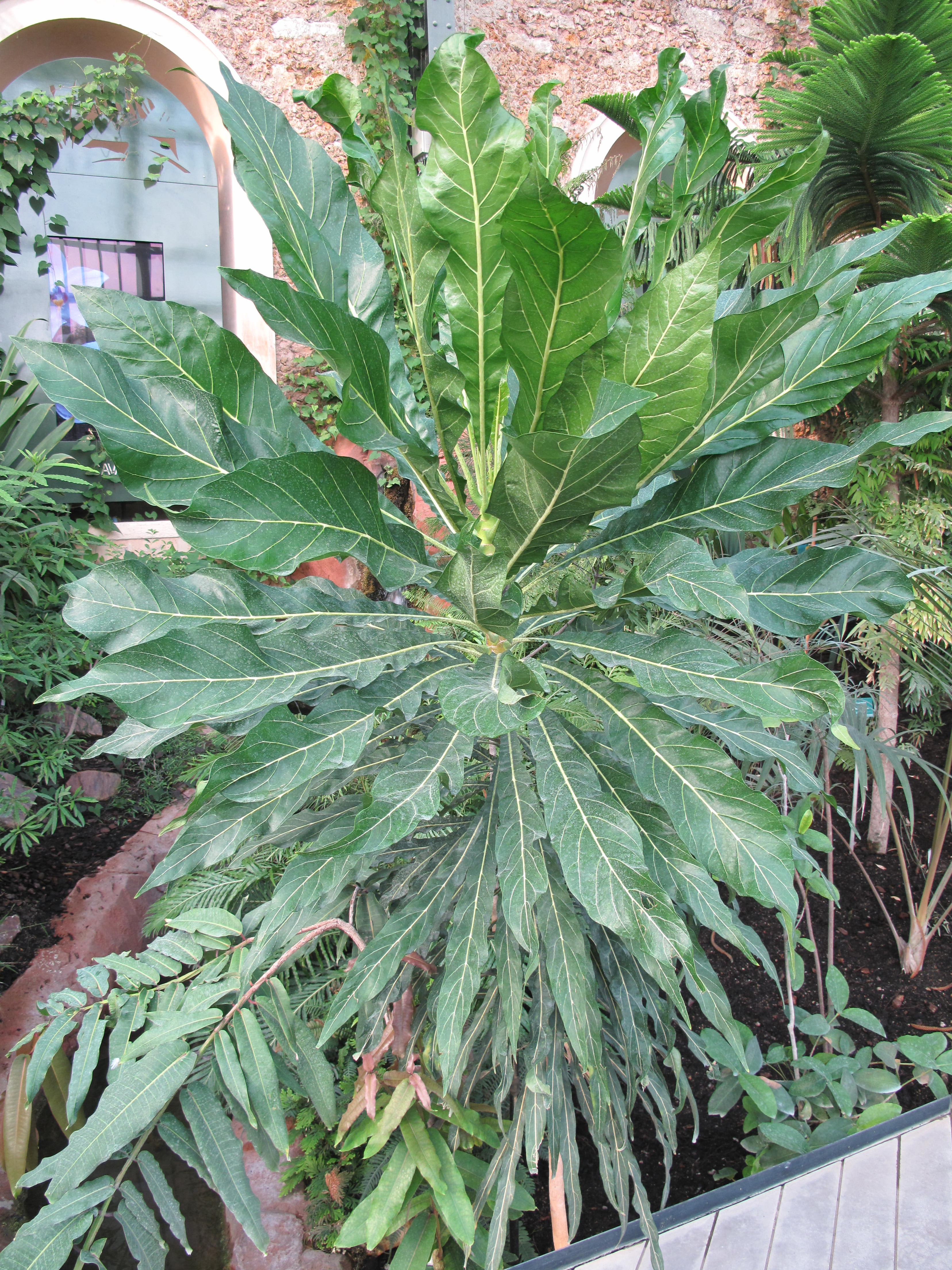 Meryta denhamii in the New-Caledonia greenhouse of the Jardin des Plantes in Paris. Identified by sign.